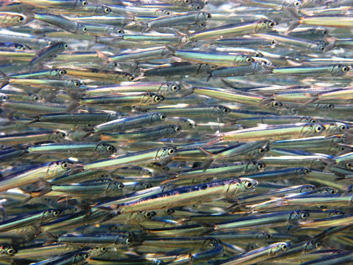 Photo taken in Liguria, Italy